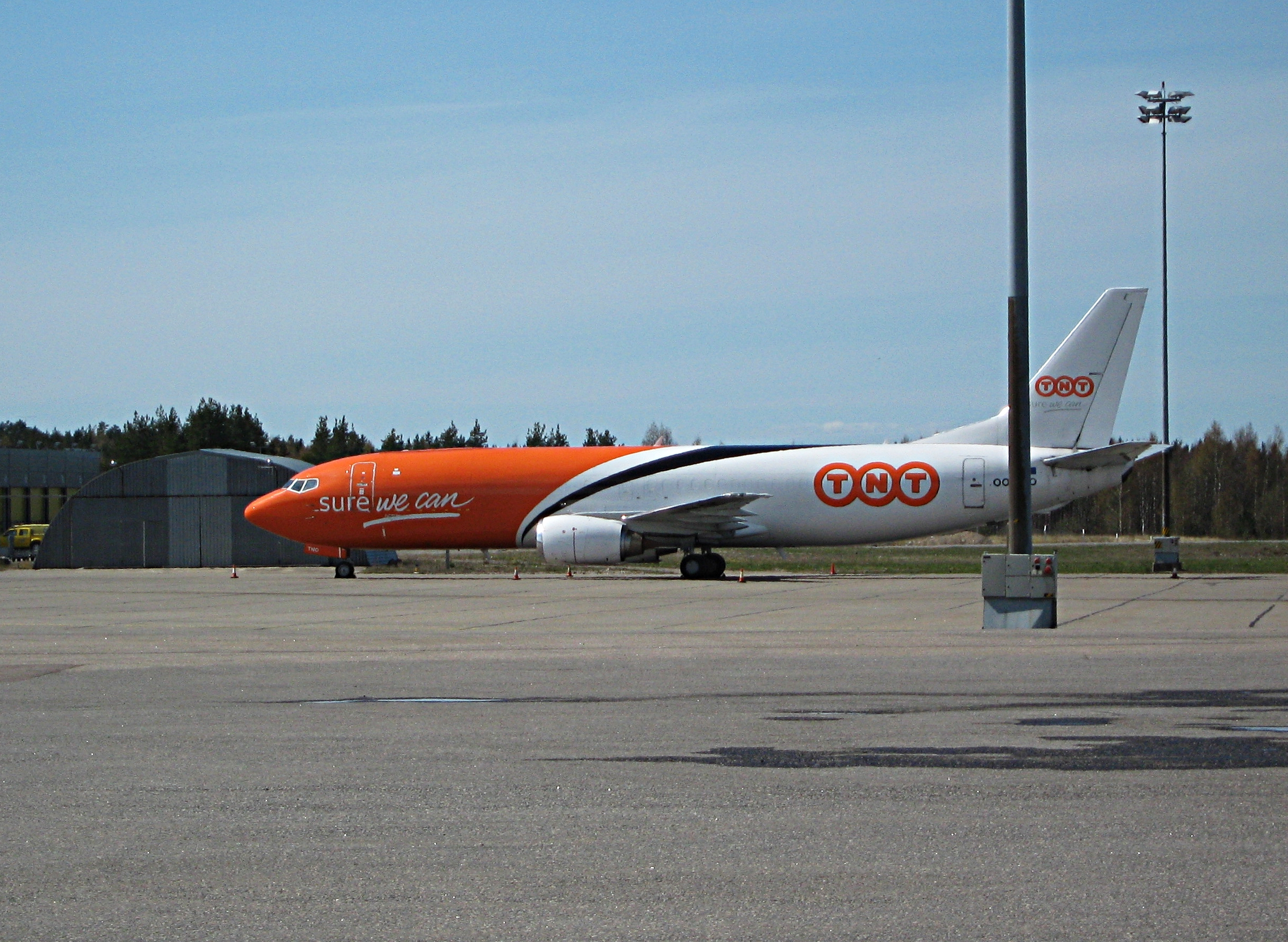 B737 aircraft oo-tno of TNT at Turku Airport